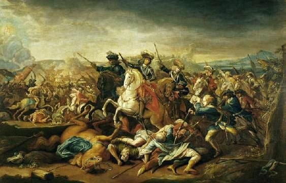 Eugene of Savoy during the Battle of Belgrade 1717